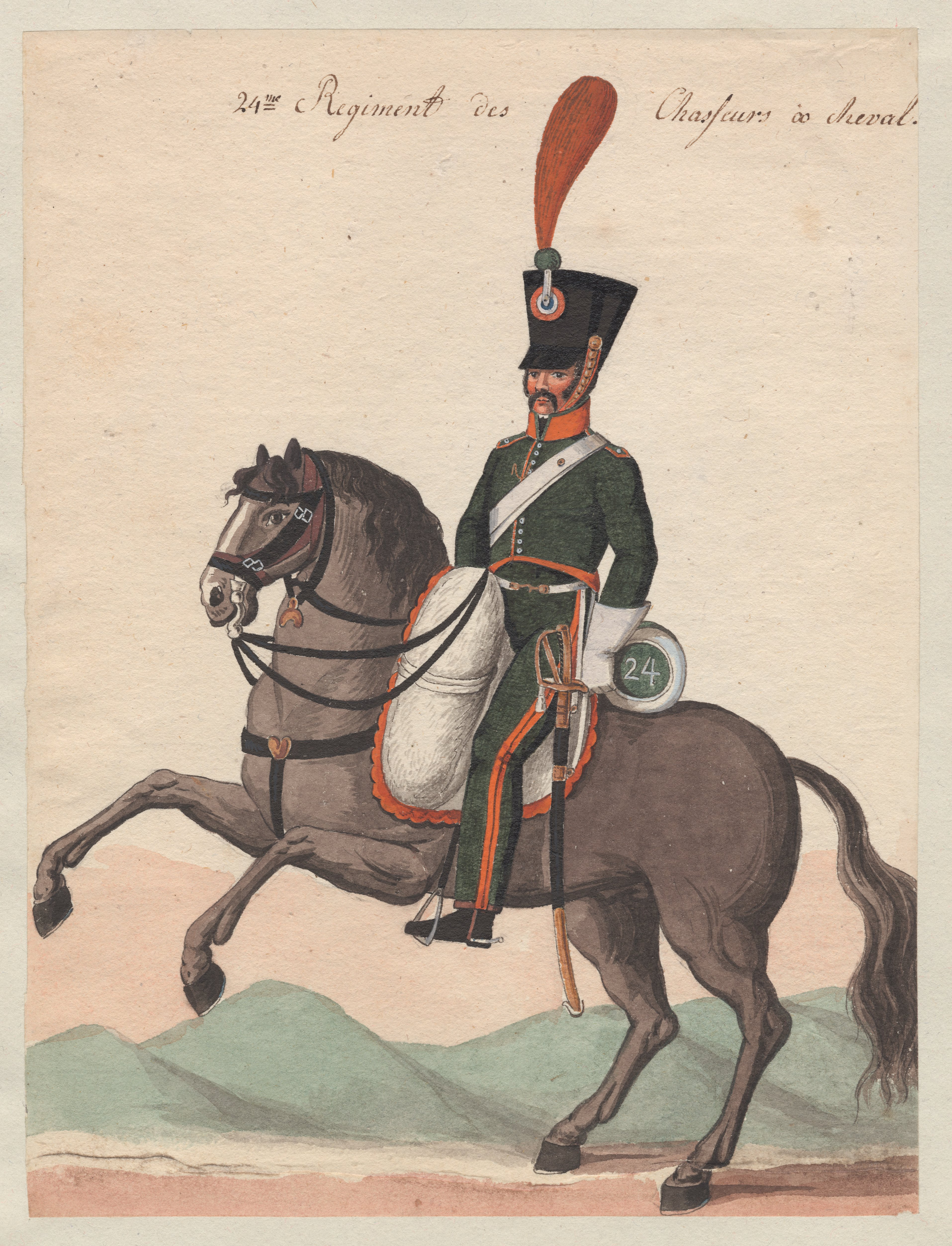 Trooper of the 24th Regiment of Mounted Chasseurs